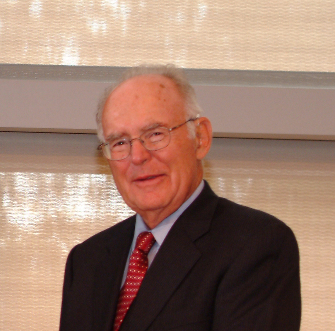 Photograph of Gordon E. Moore, at Innovation Day, 14 September 2004, at the Chemical Heritage Foundation, Philadelphia, PA, USA.